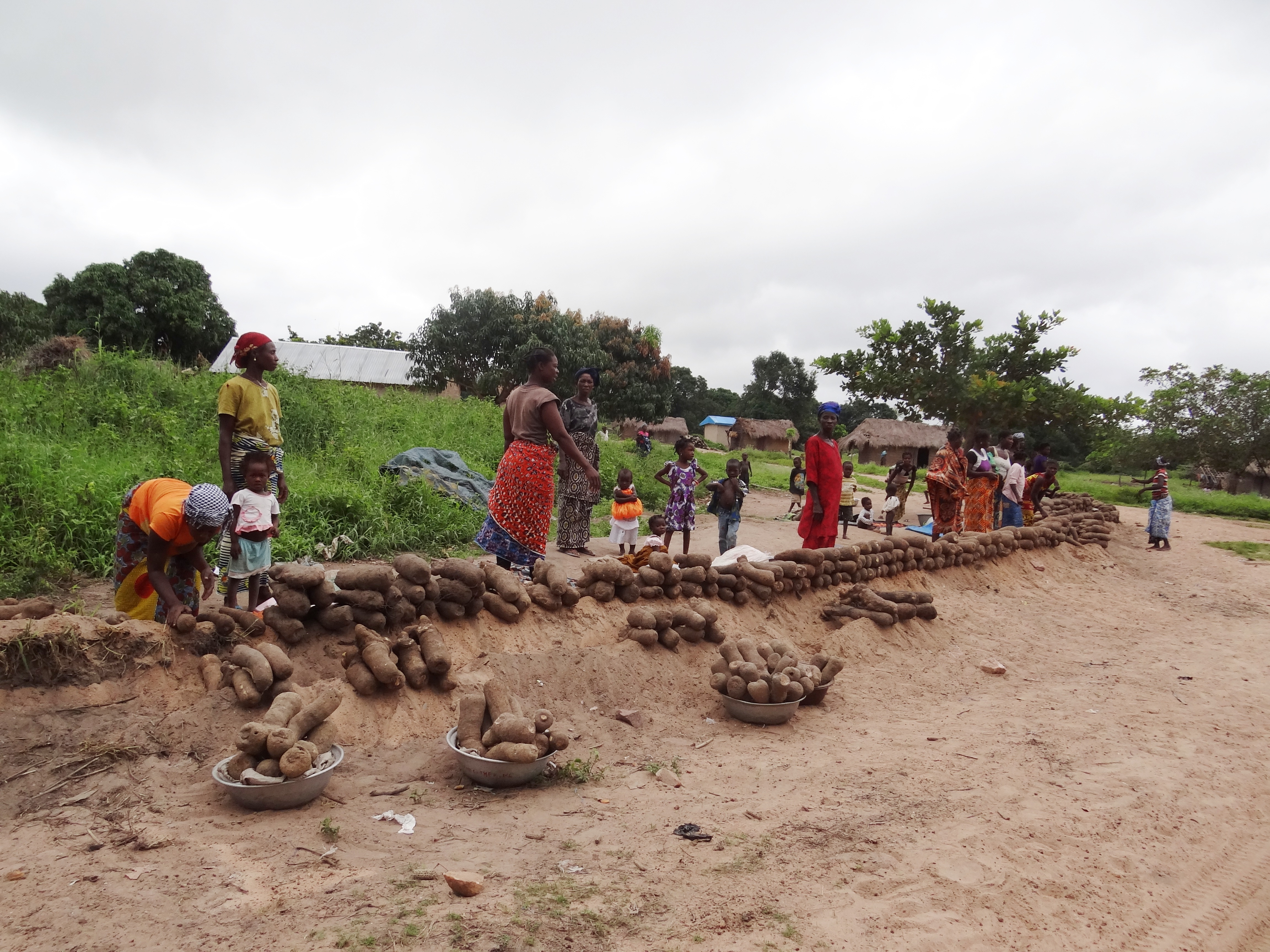 Selling Yam at the entrance to a village near Comoé National Park, the Ivory Coast